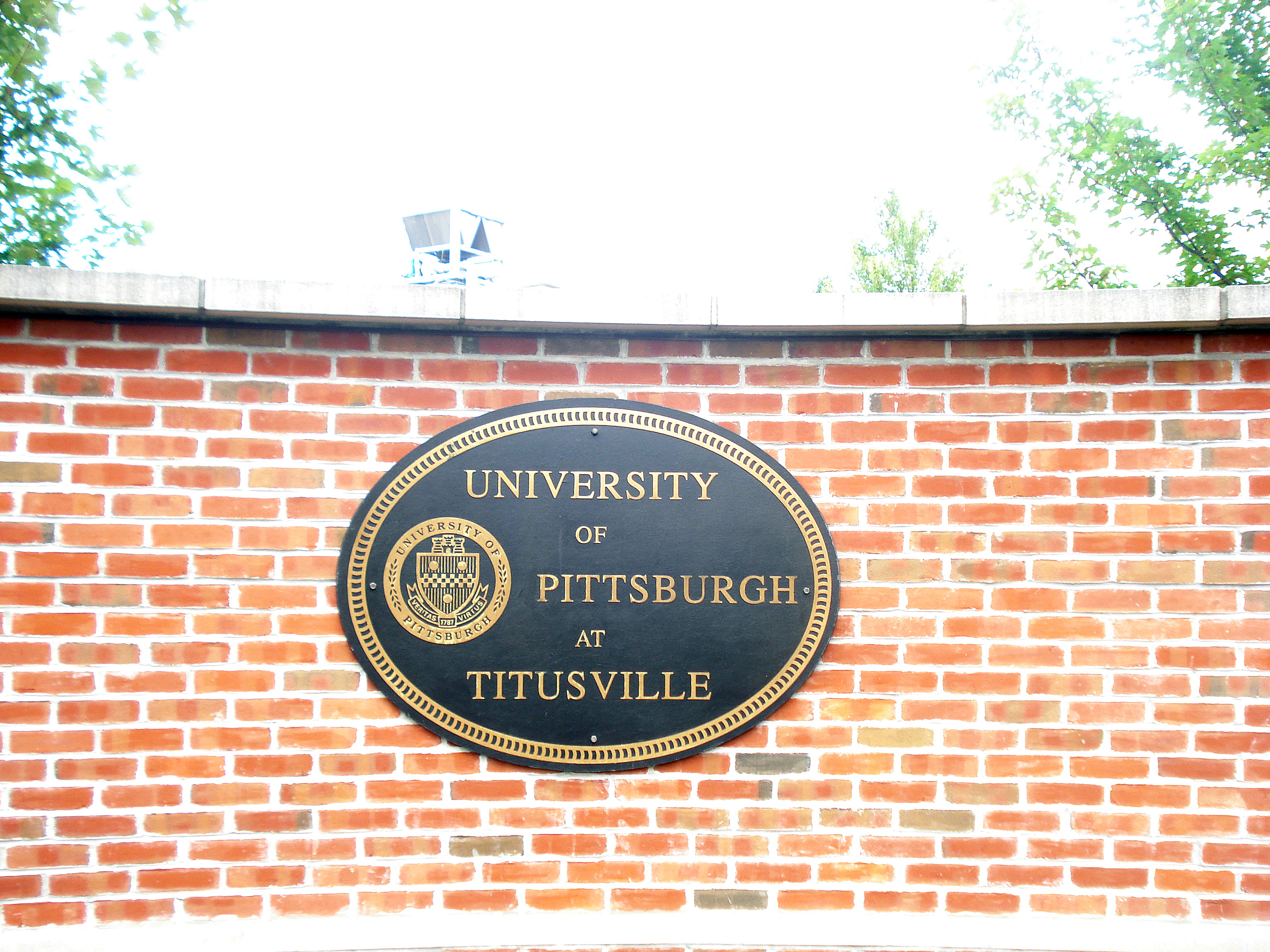 Graphics to supplement the text for Pitt Titusville Page